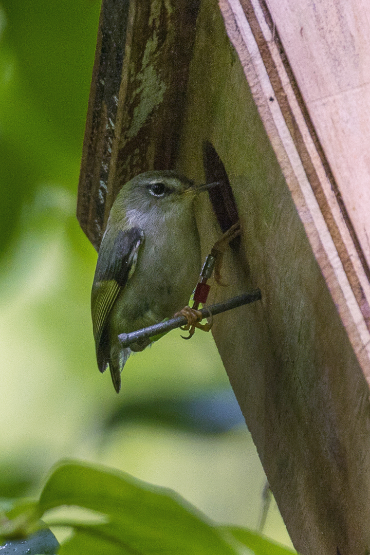 Rifleman - New Zealand_FJ0A7935